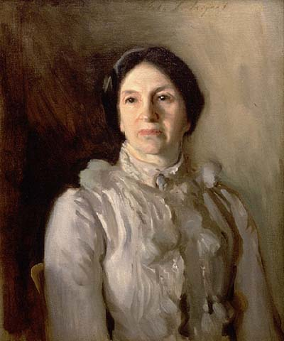 Portrait of Annie Adams Fields